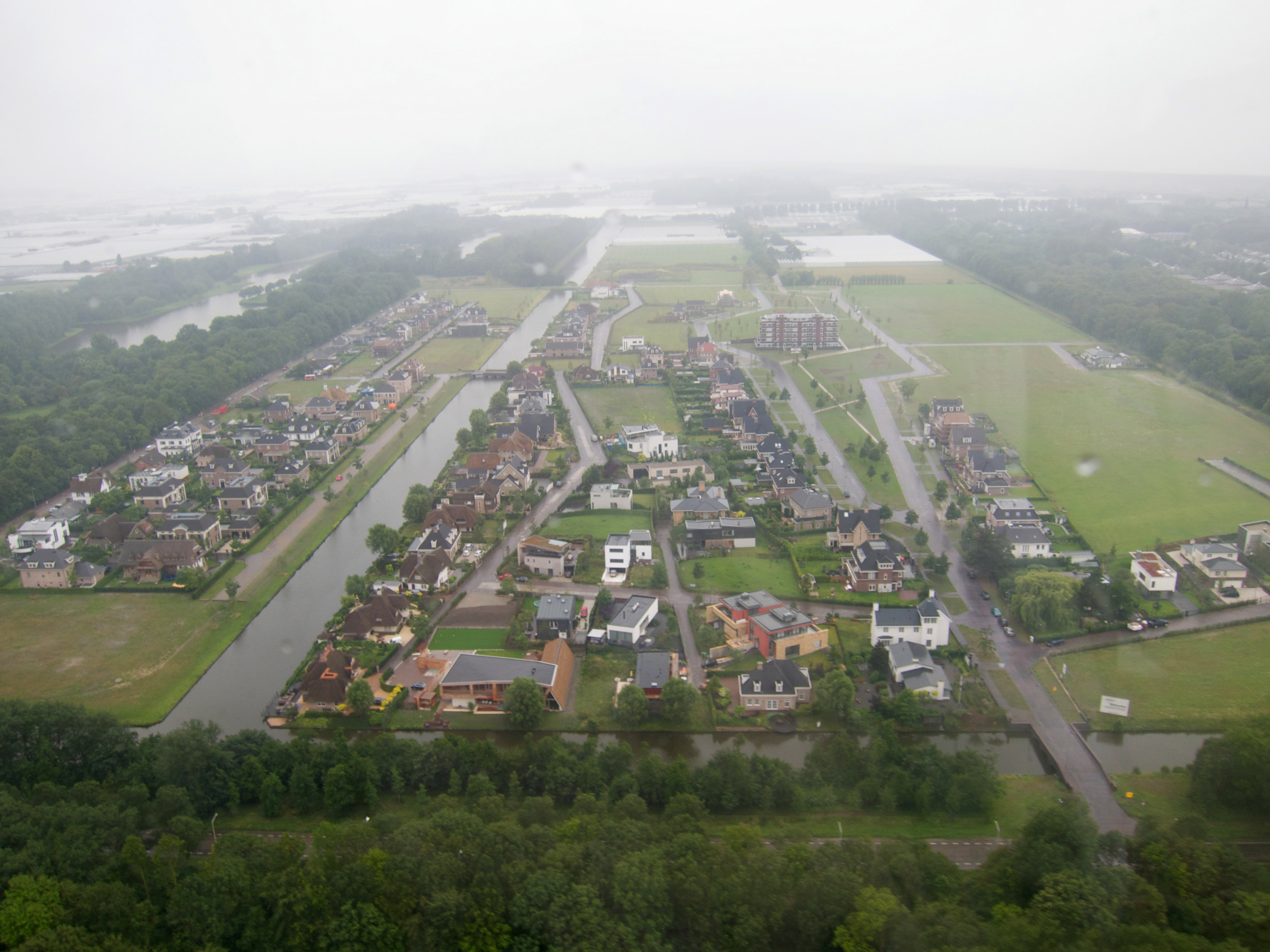 Air view of Vroondaal The Hague